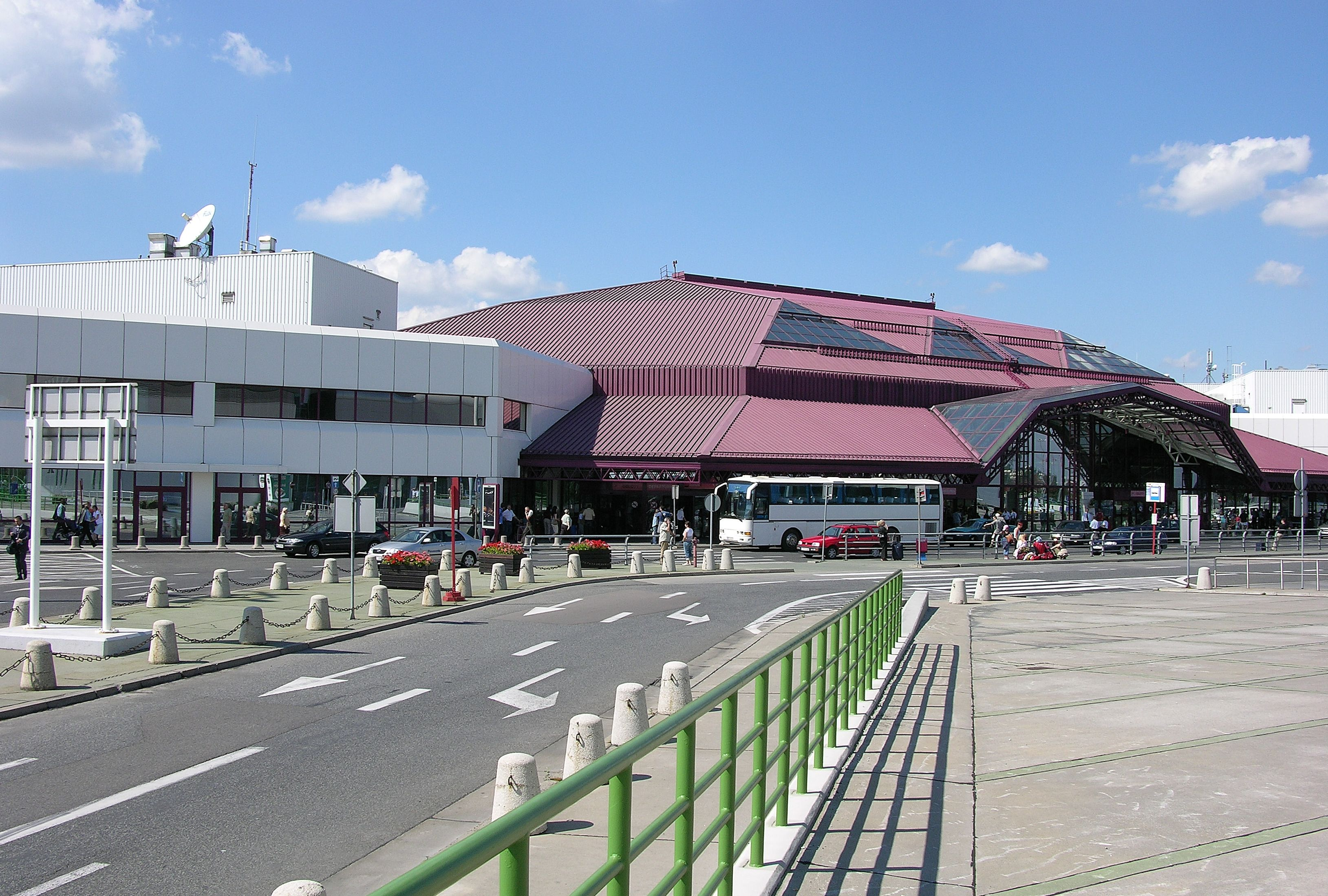 Old part of the Terminal A at the Chopin Airport in Warsaw